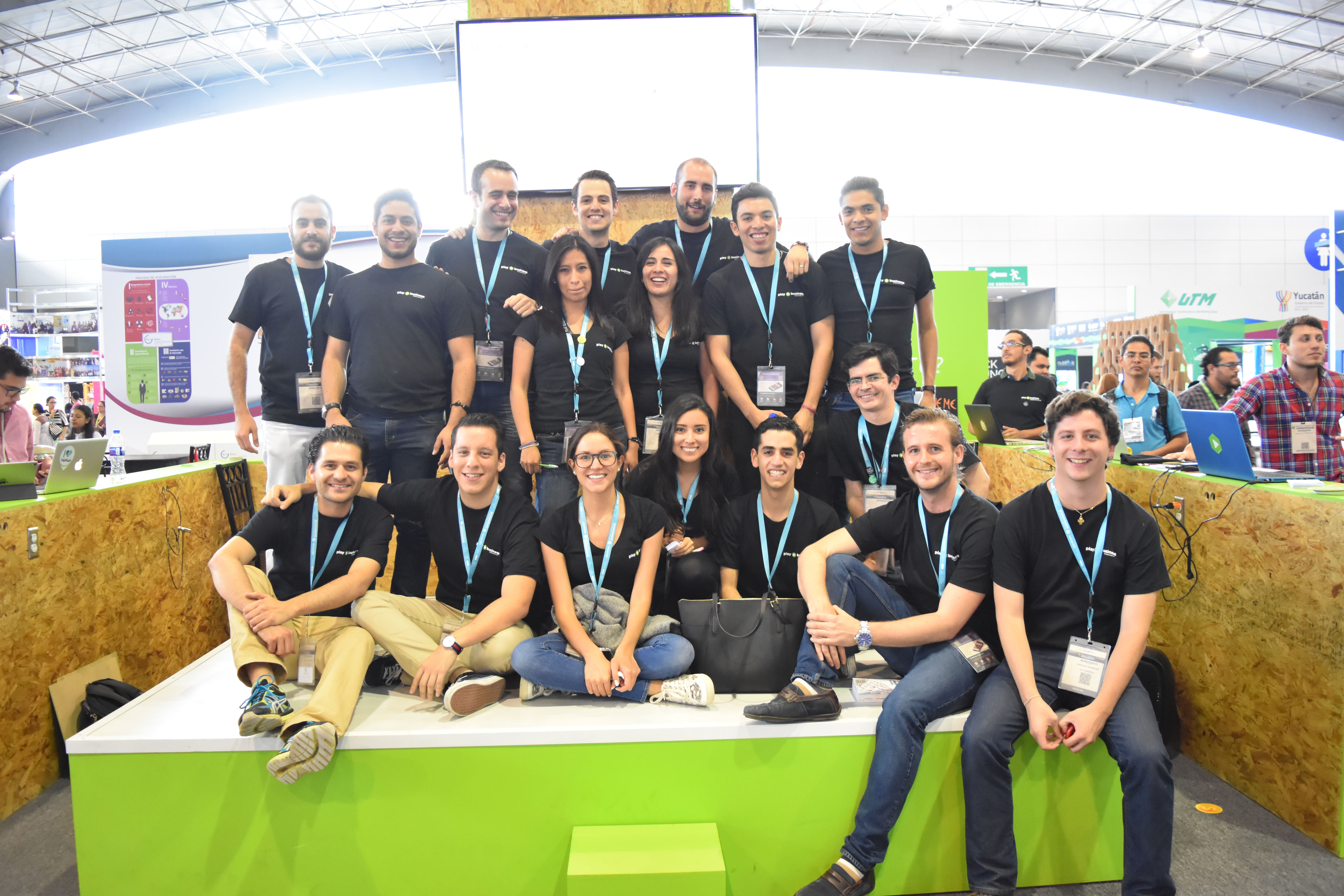 Play Business Team in Semana del Emprendedor 2016.